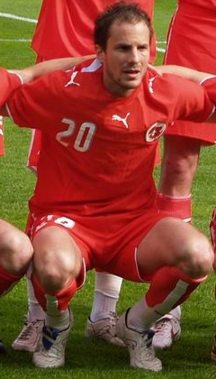 Patrick Müller before the friendly match against China on June 3, 2006